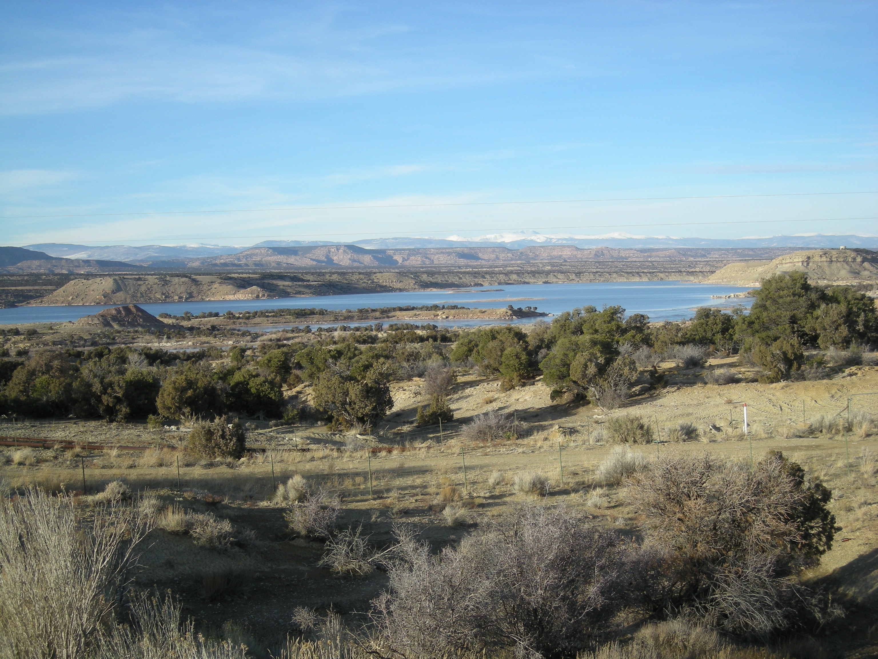 Looking North from highway 40 across Starvation reservoir to the Uintah Mountains